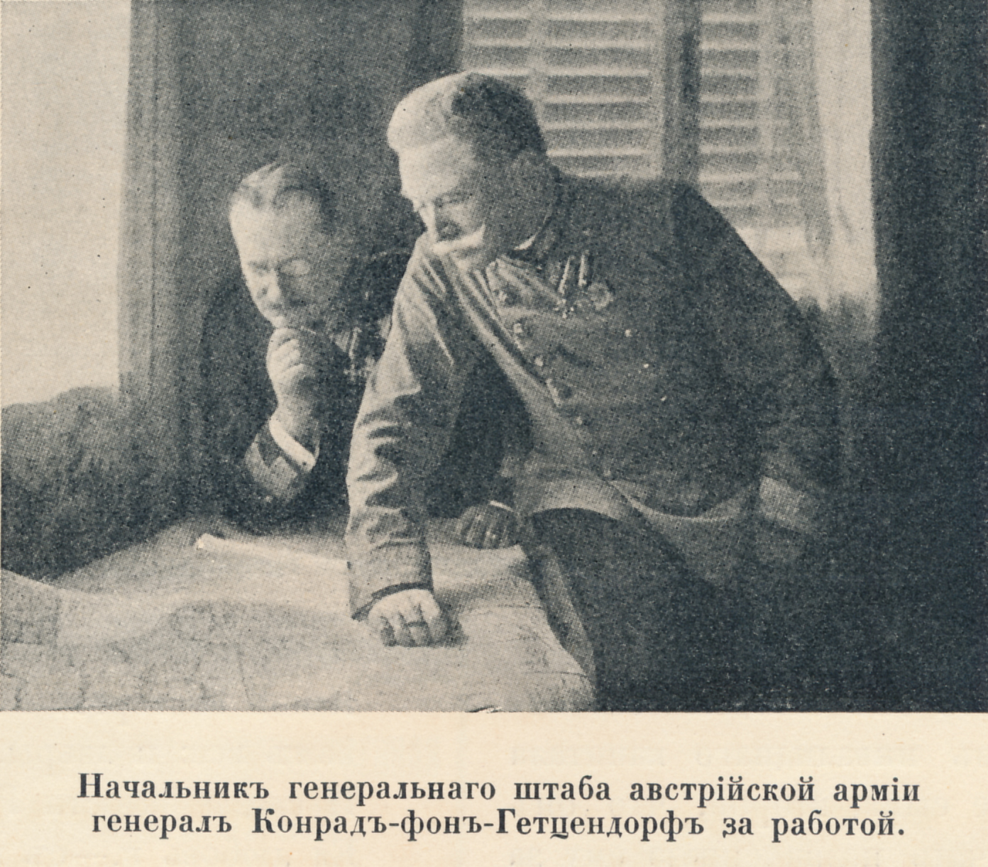 Franz Graf Conrad von Hötzendorf